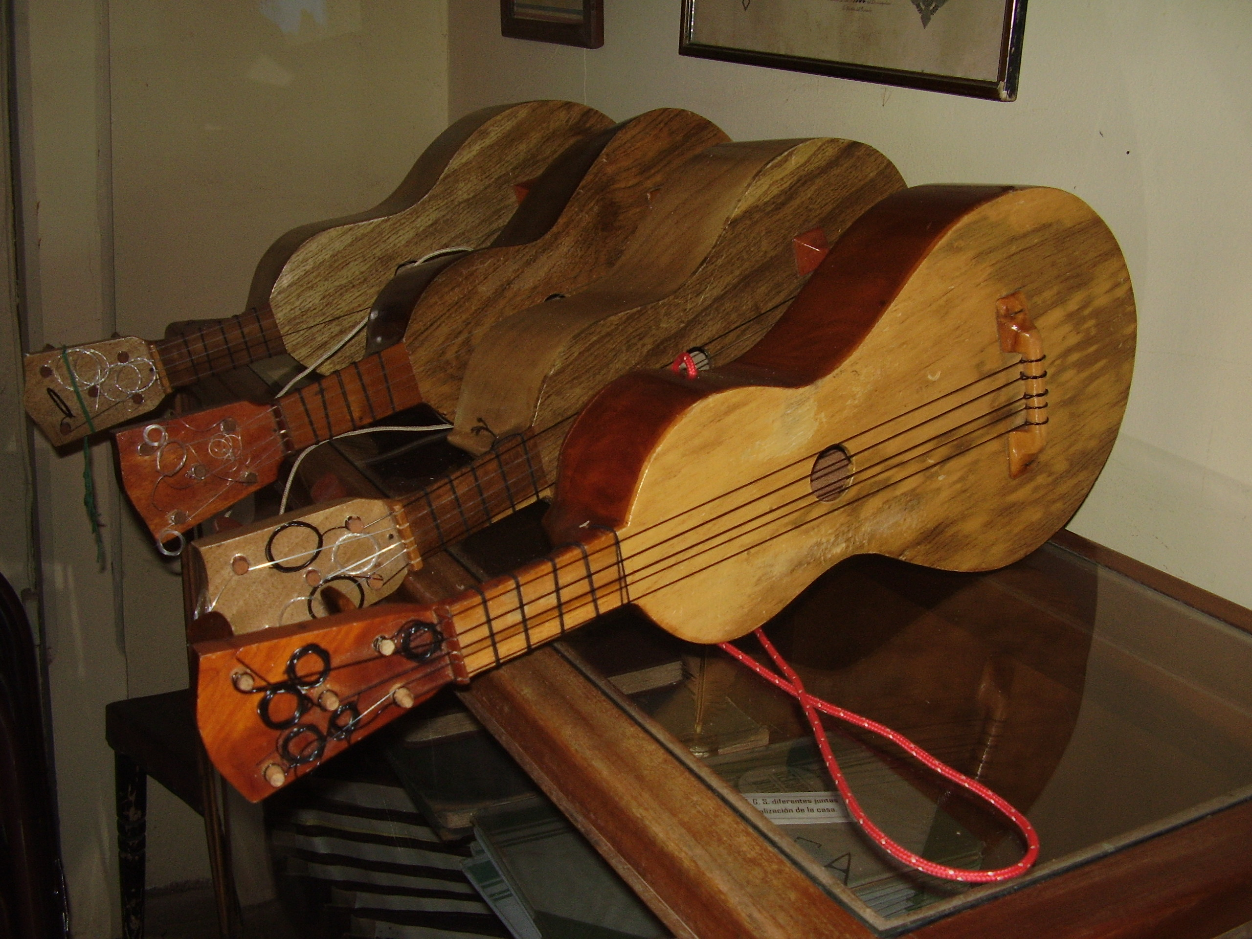 Panamanian musical instrument, Mejoranera.